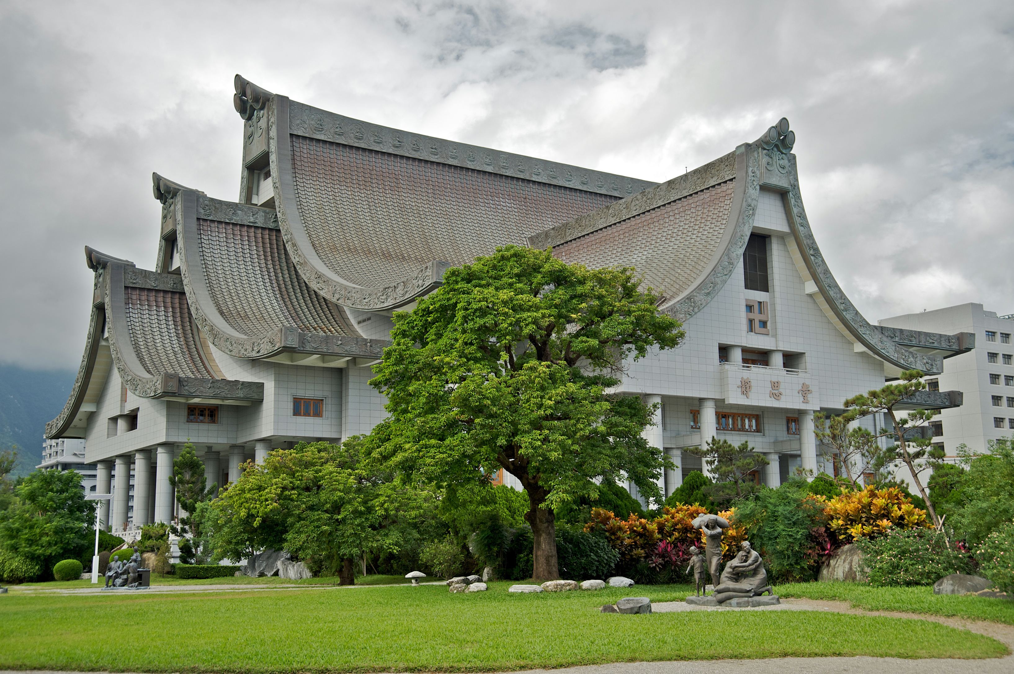 JingSi Hall in Hualient City, Taiwan中文（台灣）: 臺灣花蓮縣花蓮市靜思堂。